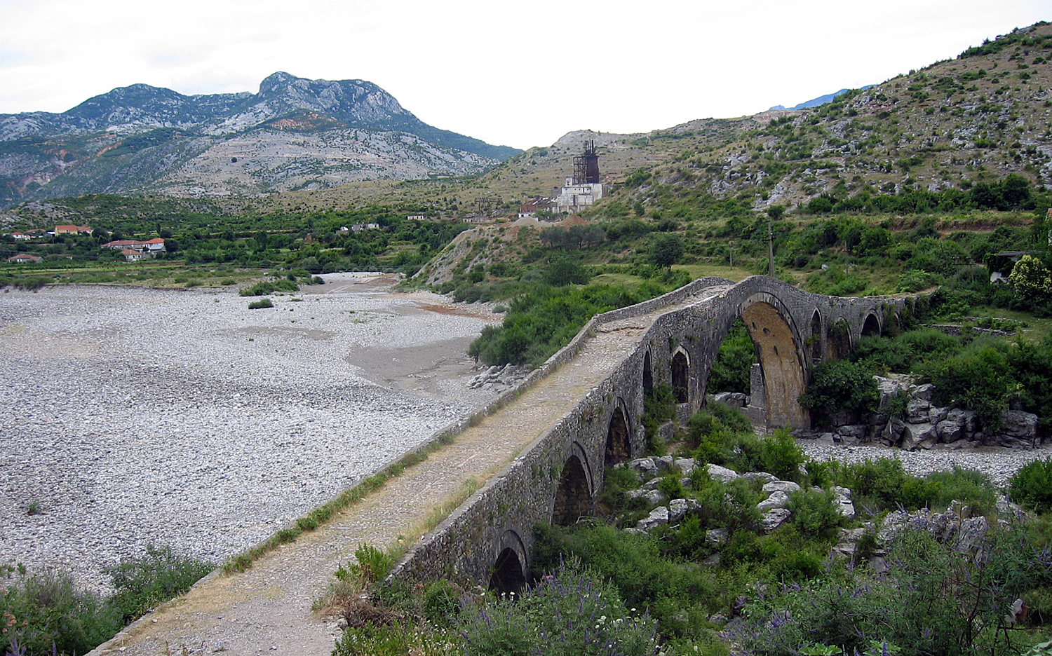 The ottoman Mes Bridge in the vicinity of Shkodra, Albania